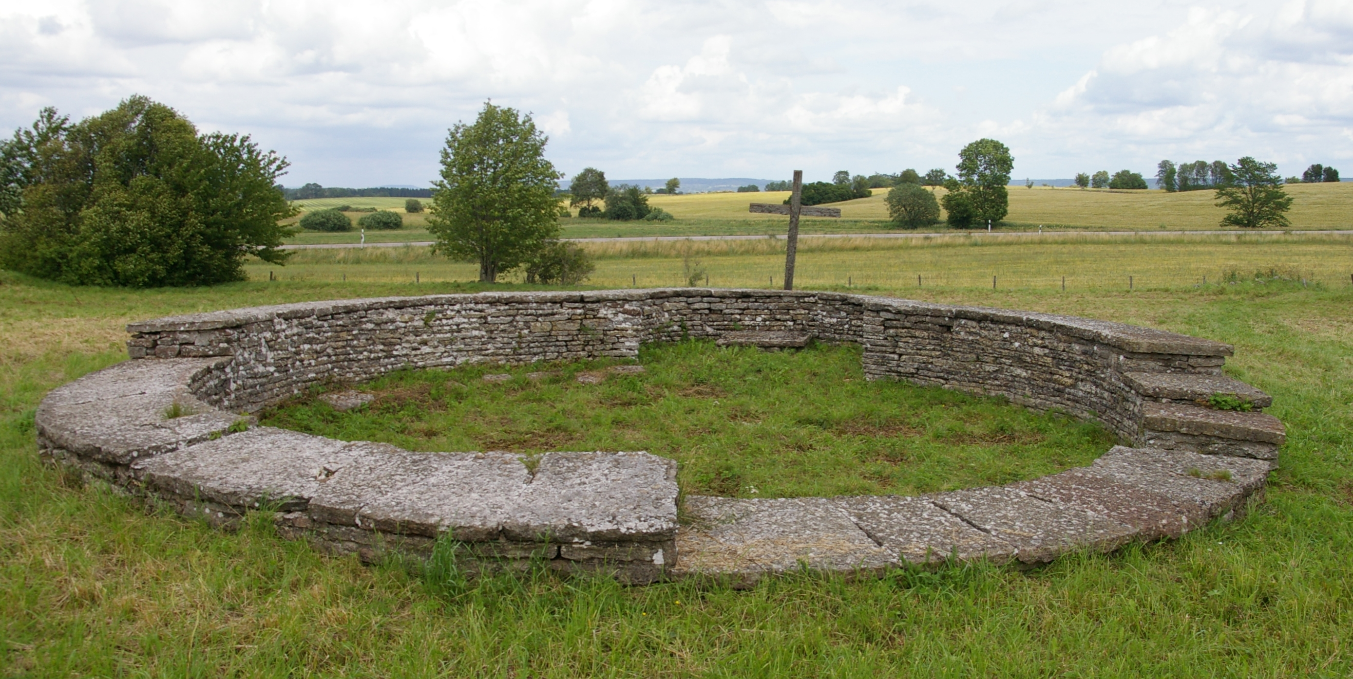 Agnestads kyrkoruin (swedish:The church ruin of Agnestad ), Västergötland, Sweden. The Agnestad church was one of the first three churches founded by St. Sigfried. The present day ruins were built in the 12th century. At least two graves from the 11th century have been found in the graveyard.